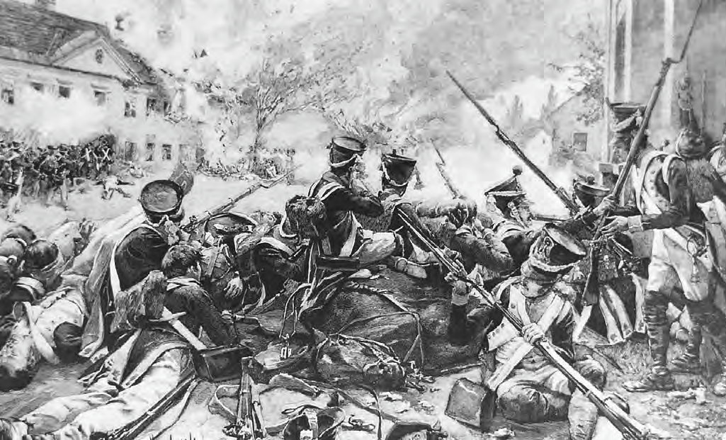 Fighting in the streets of Essling. Beleaguered French infantry exchanges fire with Austrian troops in the distance.